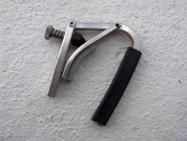 A Shubb capo which uses a lever operated over-centre locking action clamp.